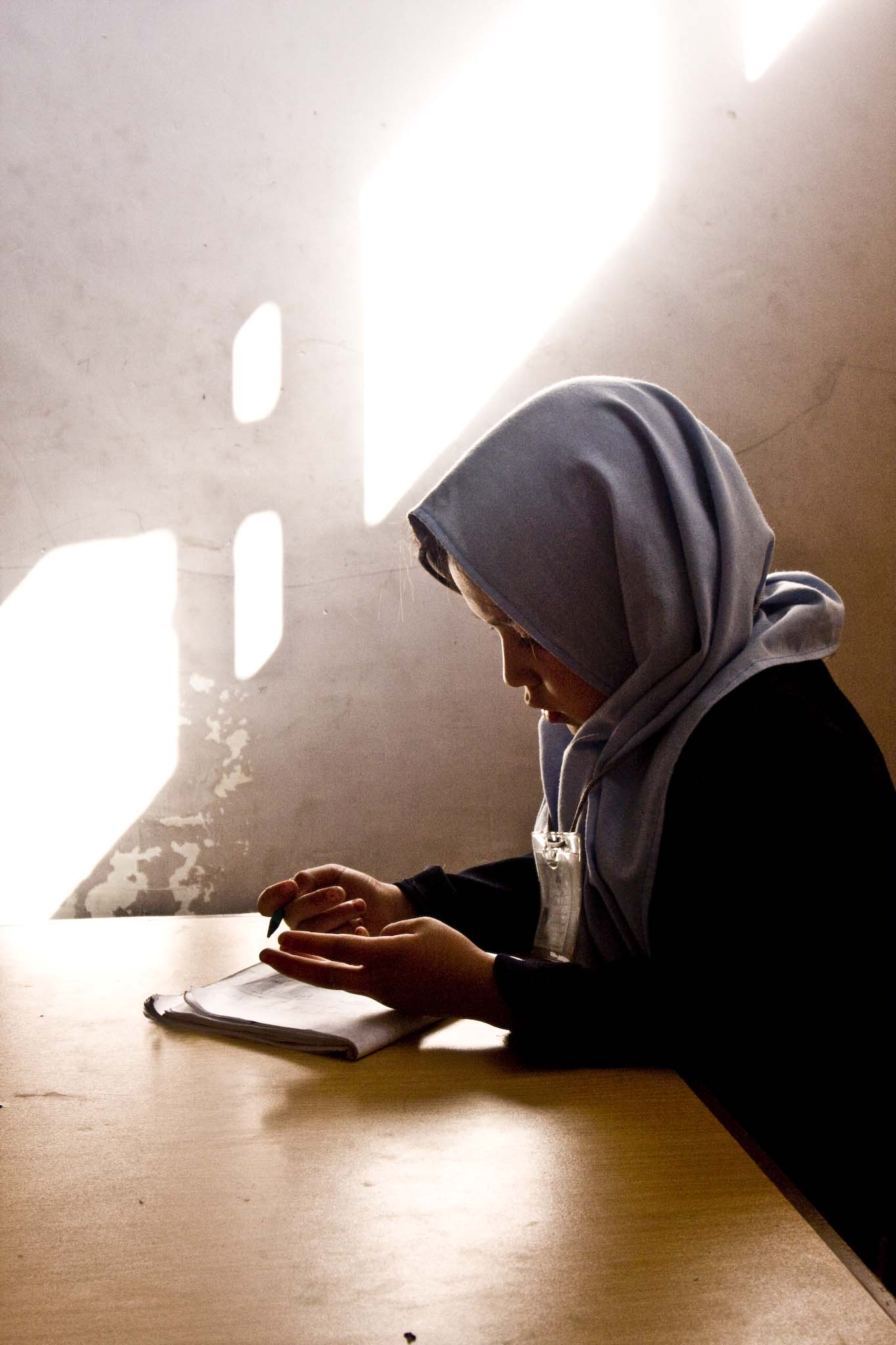 A grade 3 year old counts with her fingers in the sun lit room of Murade Khane's primary school funded by Turquoise Mountain Foundation, Kabul. Photo by Jacob Simkin of Australia.